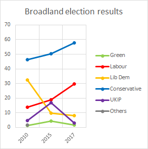 Broadland election results